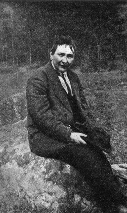 Jaroslav Hašek in Kytlice, summer 1921